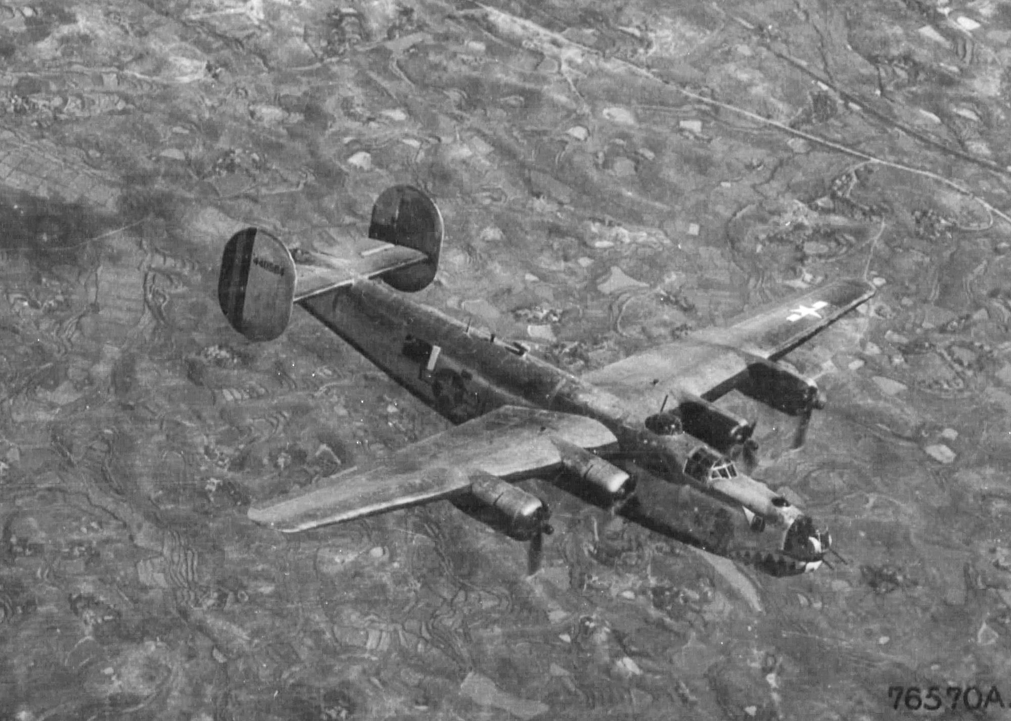 "King's X" B-24J-170-CO Liberator s/n 44-40584 375th Bombardment Squadron, 308th Bombardment Group, 14th Air Force. Photographed over China on September 16,1944.